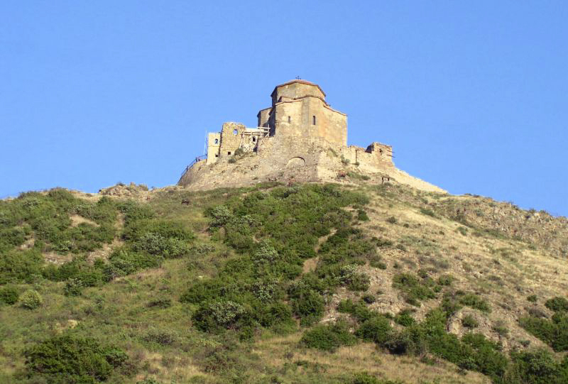 Church in Mtskheta, Georgia. From the German Wikipedia, in the public domain.